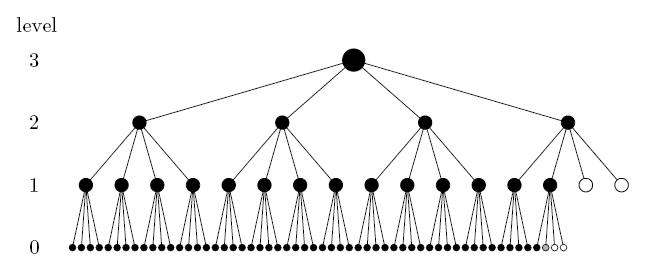 MD6 Merkle tree